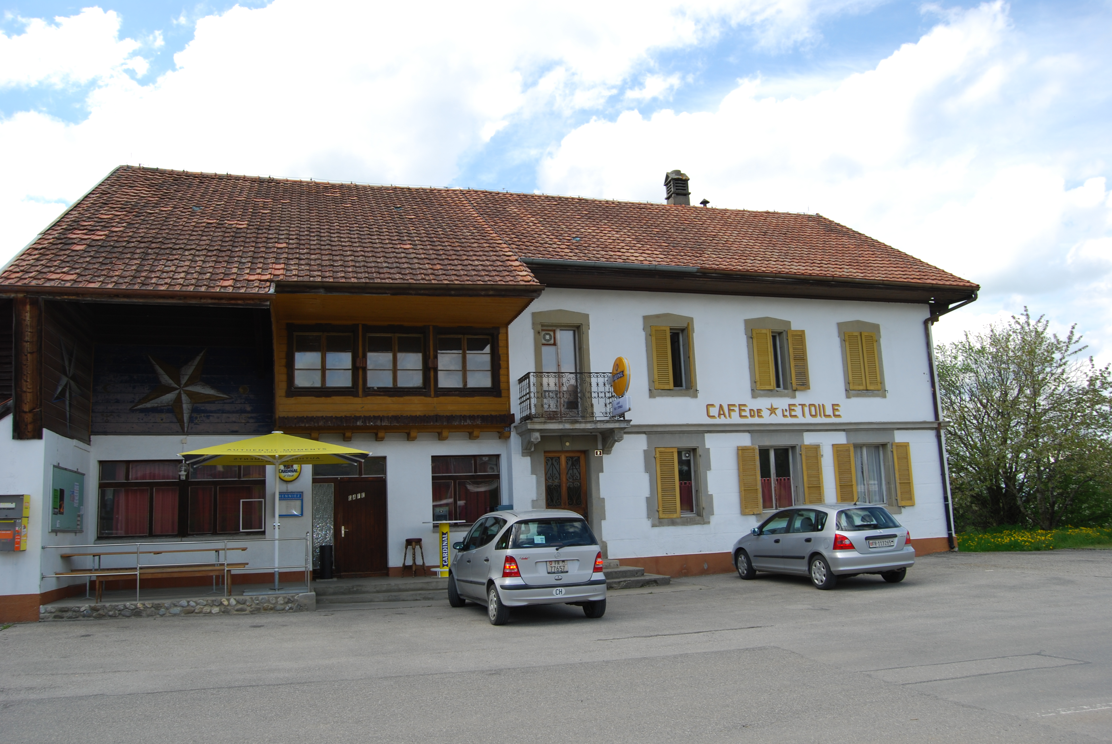 Rueyres-Saint-Laurent, municipality Le Glèbe, canton of Fribourg, Switzerland